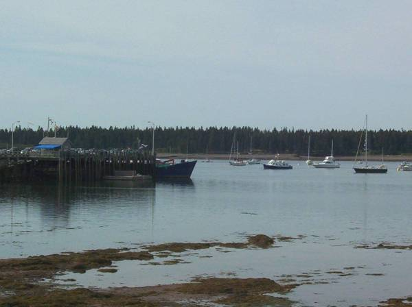 St. Croix River at St. Andrews-By-The-Sea, New Brunswick